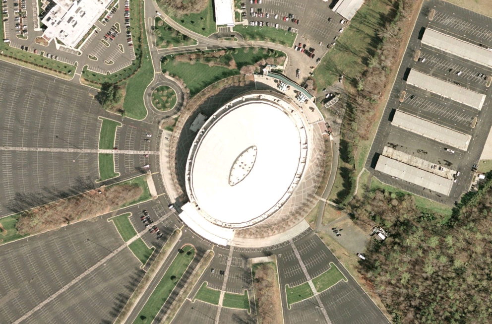 Charlotte coliseum satellite view, nasa world wind 1.3.5